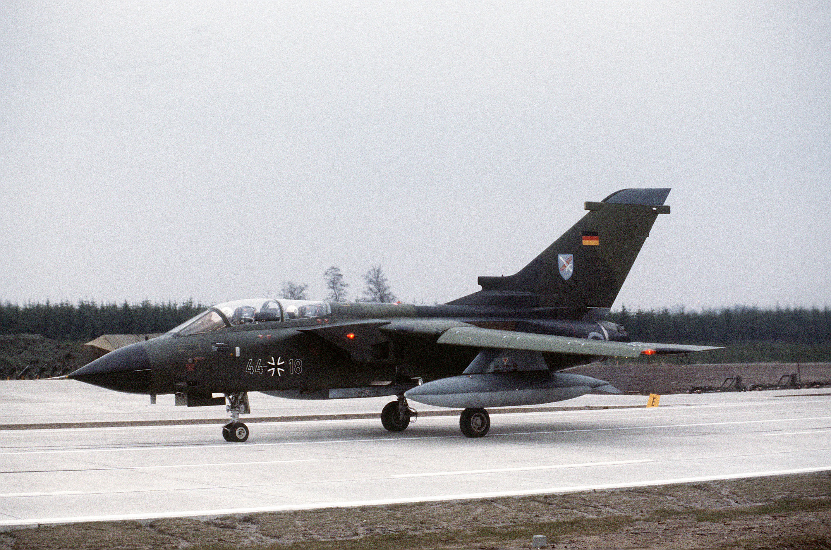 A Panavia Tornado IDS (s/n 44+18) from Jagdbombergeschwader 31 (JaboG 31) "Boelcke" (31st Fighter-Bomber Wing) of the German Lufwaffe (Air Force) after landing the German Autobahn (interstate highway) A 29 near Ahlhorn, Lower Saxony (Federal Republic of Germany), on 28 March 1984. This part of the A 29 was a NATO emergency airstrip which was used for 48 hours as such during the "Highway 84" excercise, before it was officially opened for traffic.